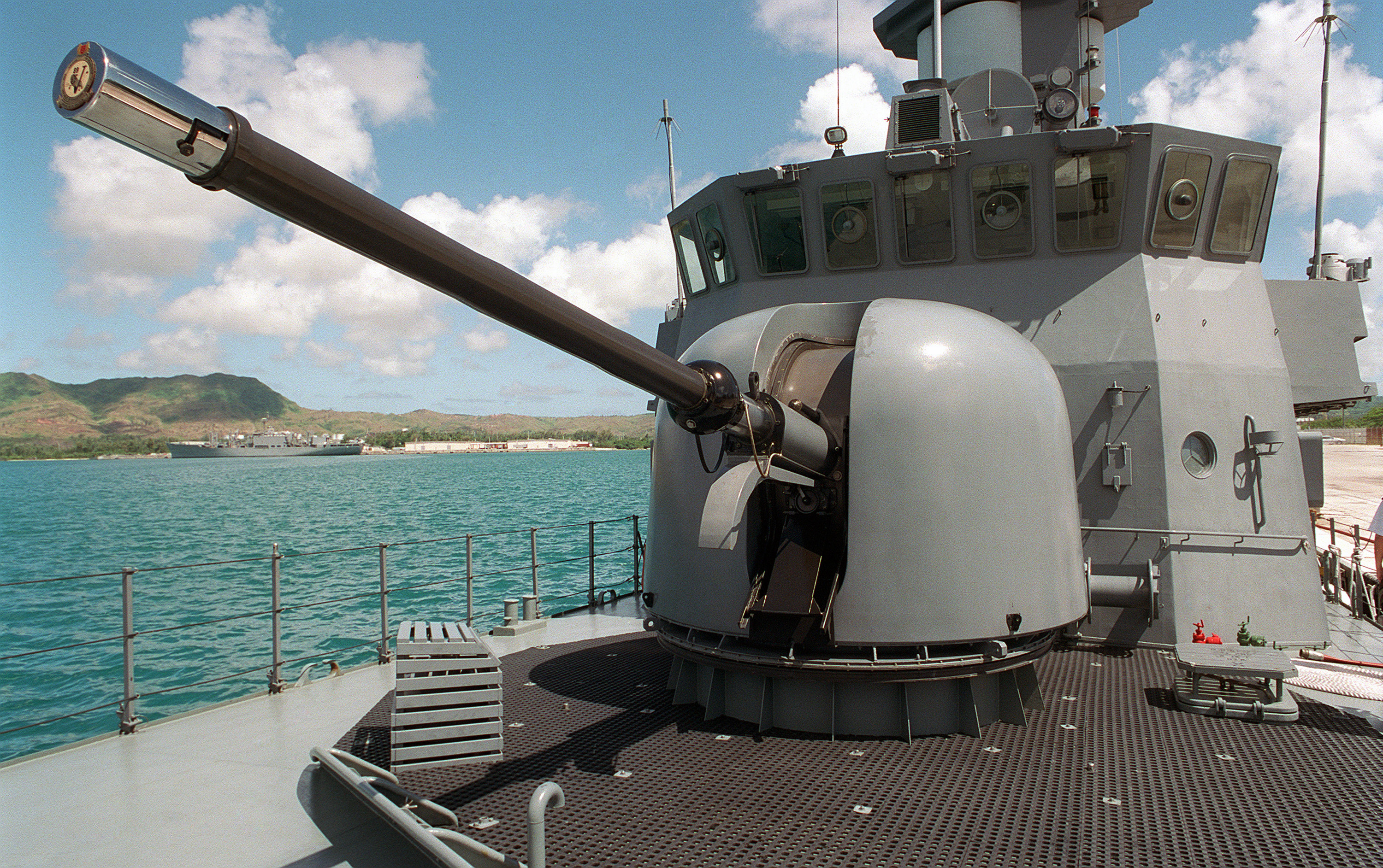 03/20/1999 - Close up view of the 76.mm OTO Melara 3-inch gun mounted on the deck of the Republic of Singapore Navy (RSN) VICTORY CLASS, MISSILE CORVETTE, VALOR (P 89) at the Sierra Pier, Guam during Exercise TANDEM THRUST 99.